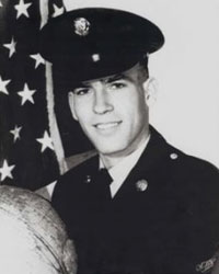 Army file photo of Peter C. Lemon